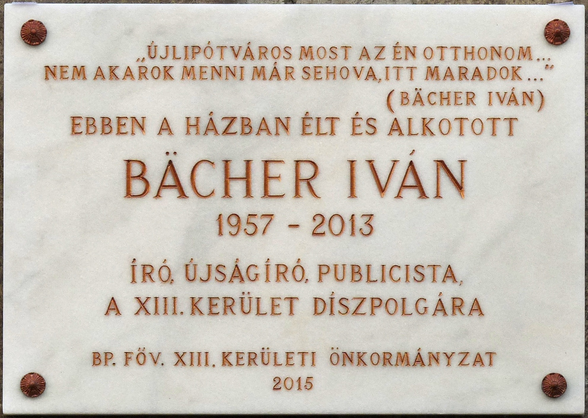 Commemorative plaque to Mr. Iván Bächer (1957–2013) Hungarian writer, journalist, publicist and teacher. It has been affixed to the wall of the house where he lived and unveiled September 5, 2015. Quote: "This is Újlipótváros where I am now home... I do not want to go anywhere, I stay here..." – Iván Bächer (Budapest, District XIII, Pannónia Street Nr 21)